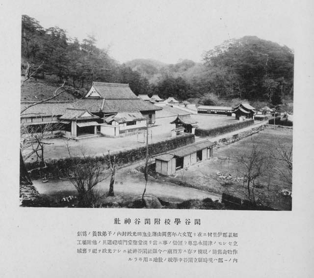 Shizutani Shrine formerly attached to Shizutani School .